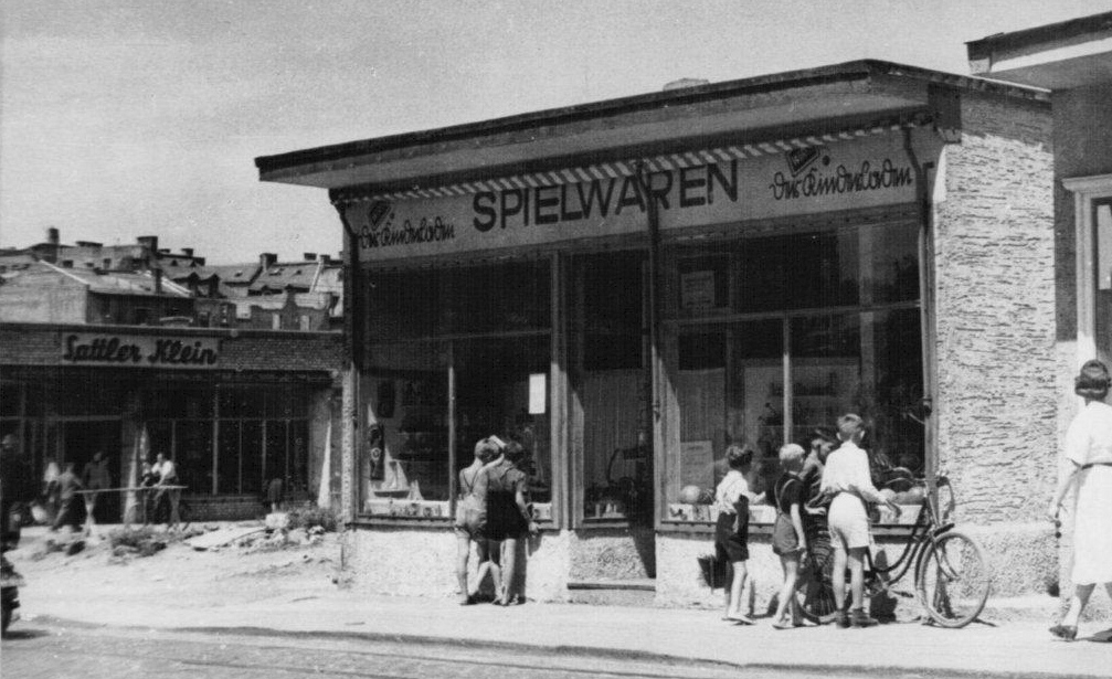 The barrack of Wirth 'der Kinderladen' and 'Sattler Klein' (nowadays Lederwaren Klein) 1948 in Mainz, Germany after destruction of the main building in WWII. Corner Schillerstraße-Große Bleiche